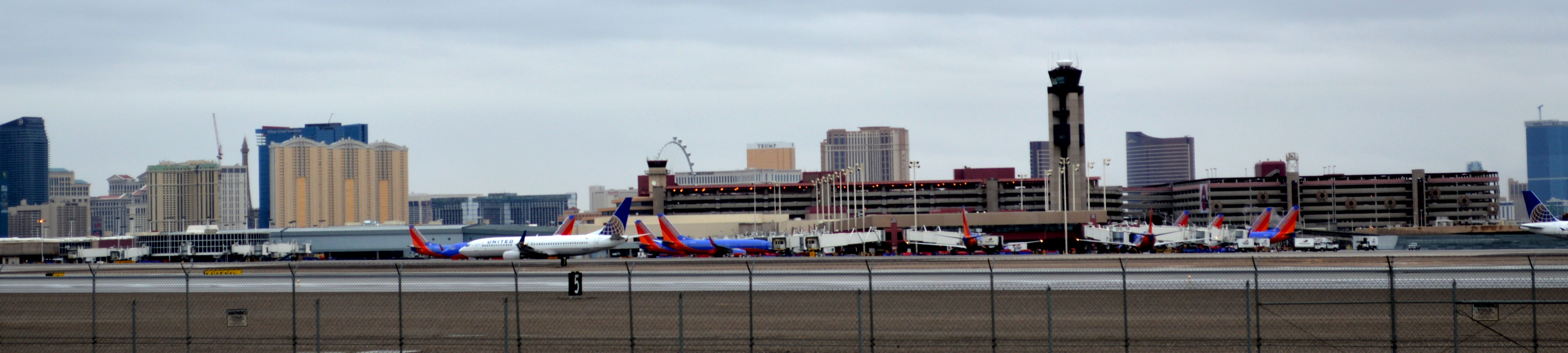 McCarran International Airport with the Las Vegas Strip in the background, taken on a rainy day; brightness and contrast have been adjusted to bring out colors.